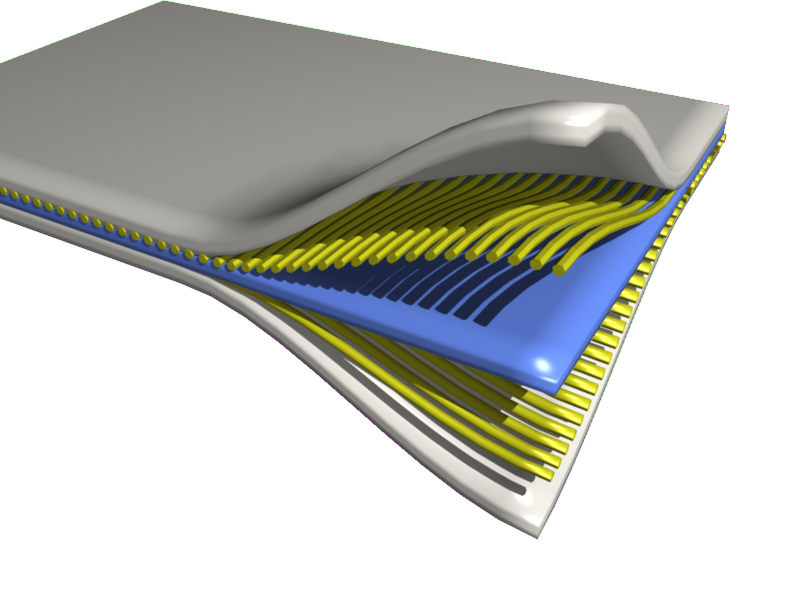 Example of a composite material.